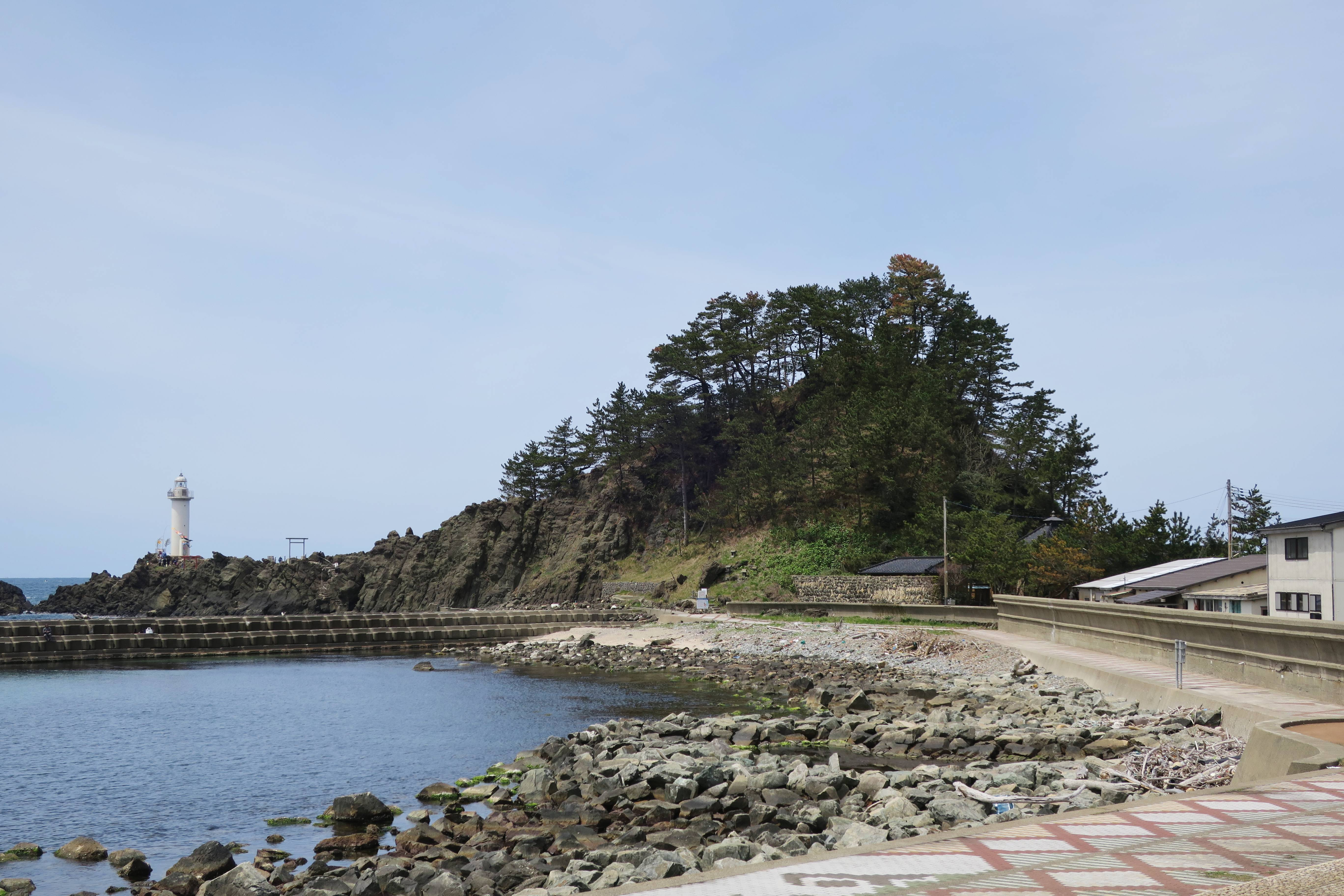 Bentenjima (Tsuruoka, Yamagata).